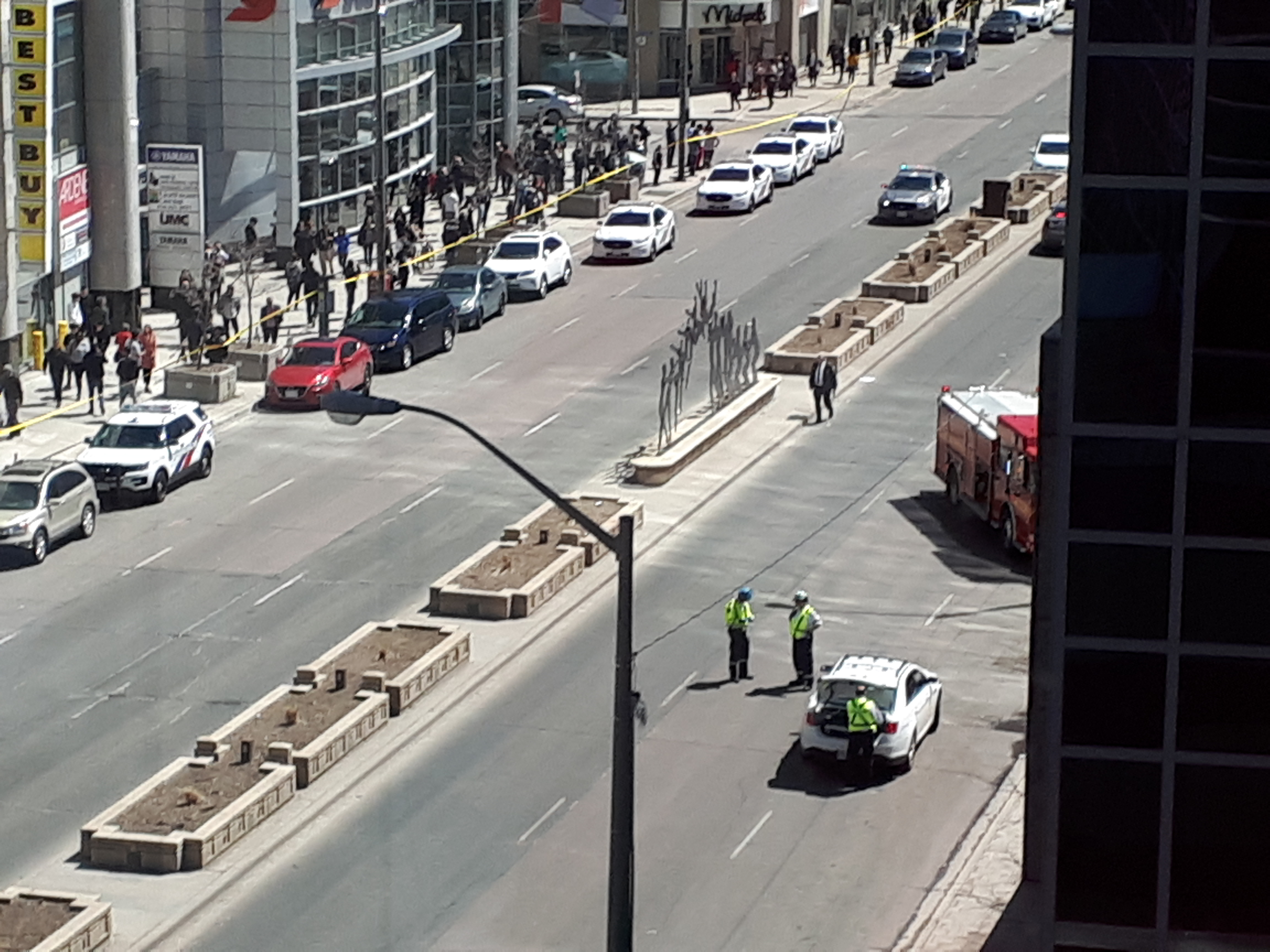 Yonge St looking south cordoned off (5)